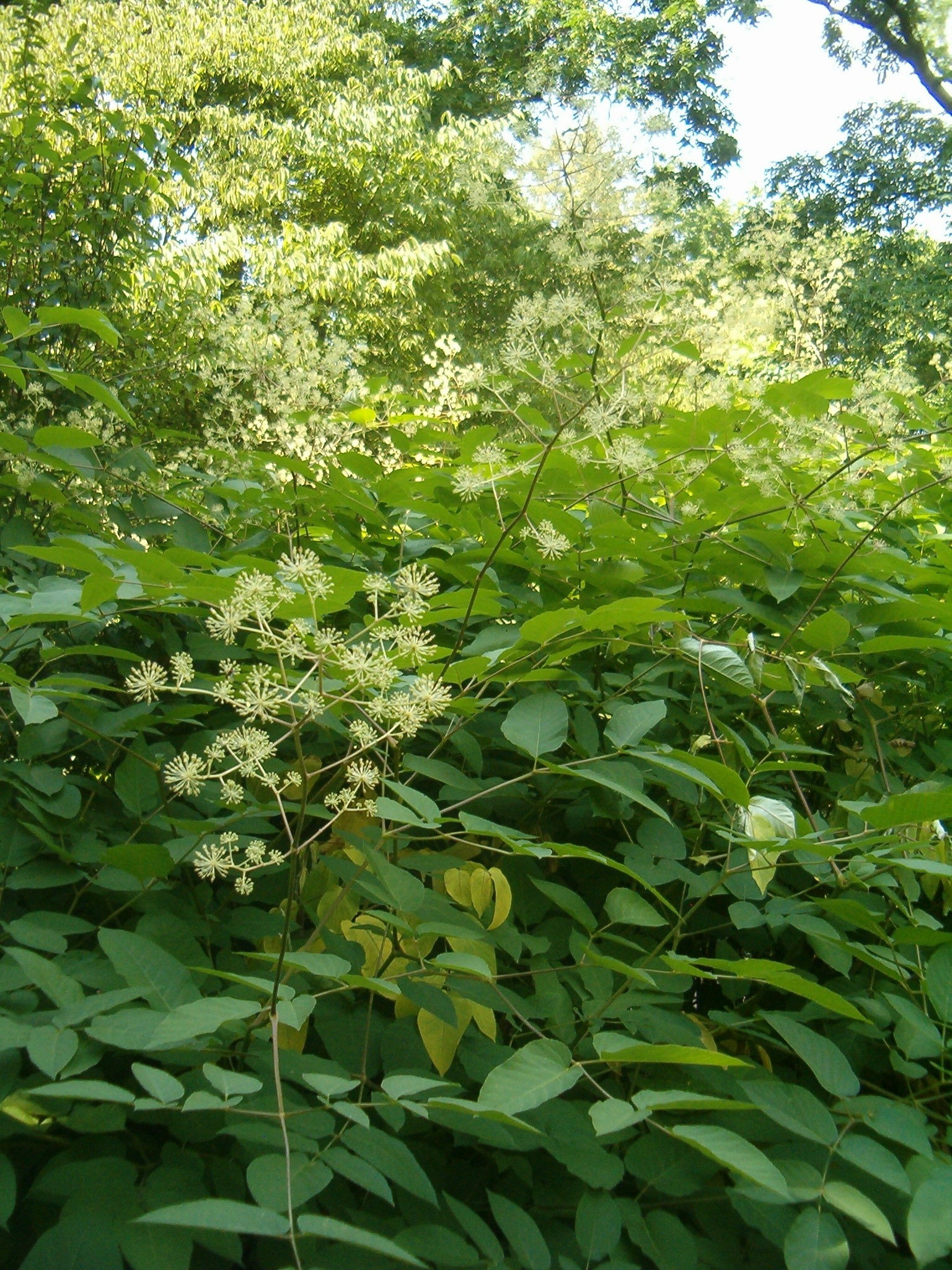 At Botanical Gardens Berlin-Dahlem Species Aralia californica